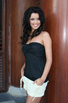 Miss Moldova 2007, Ina Codreanu in Miss World 2007, Sanya, China